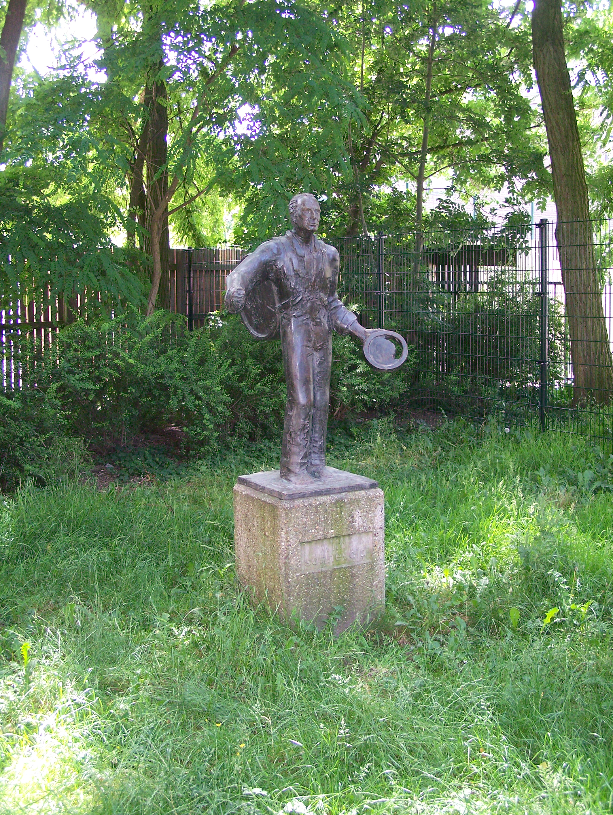 Statue of the fictional character "Nikkelen Nelis", a street singer character invented by Wim Sonneveld. The statue was made by Johan Jorna in 1985 for the school at the Schubertstraat that carries the name of Wim Sonneveld. Wim Sonneveld was born in Utrecht.